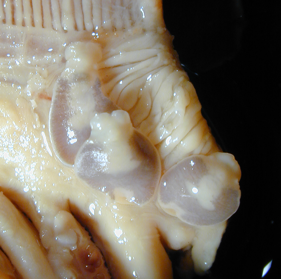 Lagenivaginopseudobenedenia sp. (Monogenea, Capsalidae), 3 specimens on the gill of Etelis coruscans (Lutjanidae). The head of the monogenans is at the top. Material treated with formalin. Fish caught off New Caledonia, January 2002.